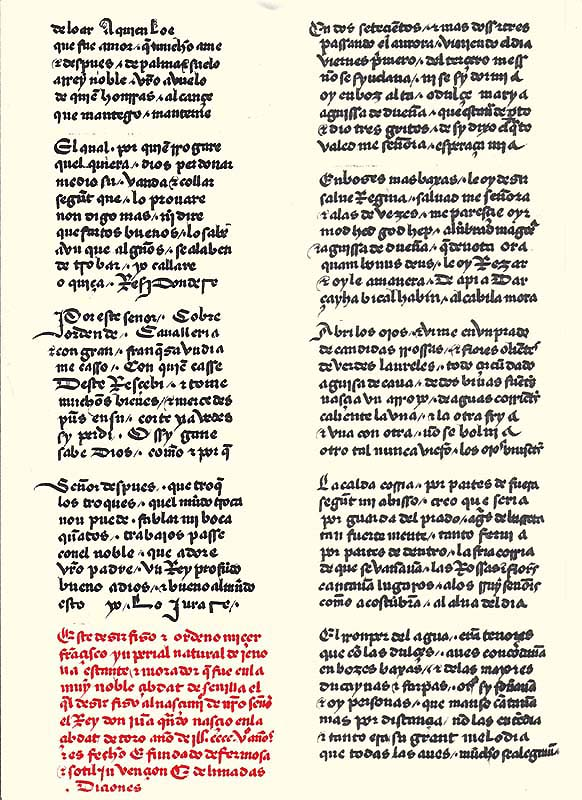 Photo of "Cancionero de Baena" (Juan Alfonso de Baena)